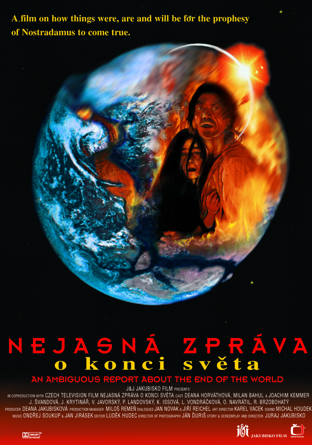 Official poster for the movie An Ambiguous Report About the End of the World